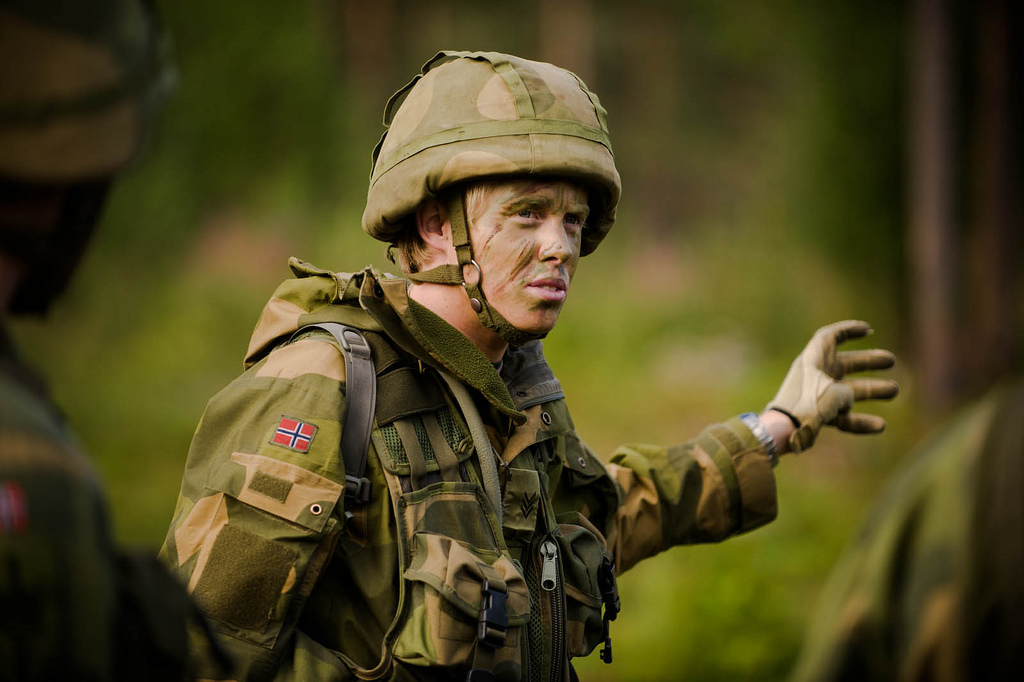 A soldier from Panserbataljonen of the Norwegian Army